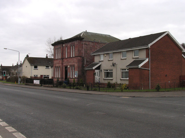 Victoria Institute Renton Victoria Institute Renton was a local Library now closed without public consultation by W Dunbartonshire Council